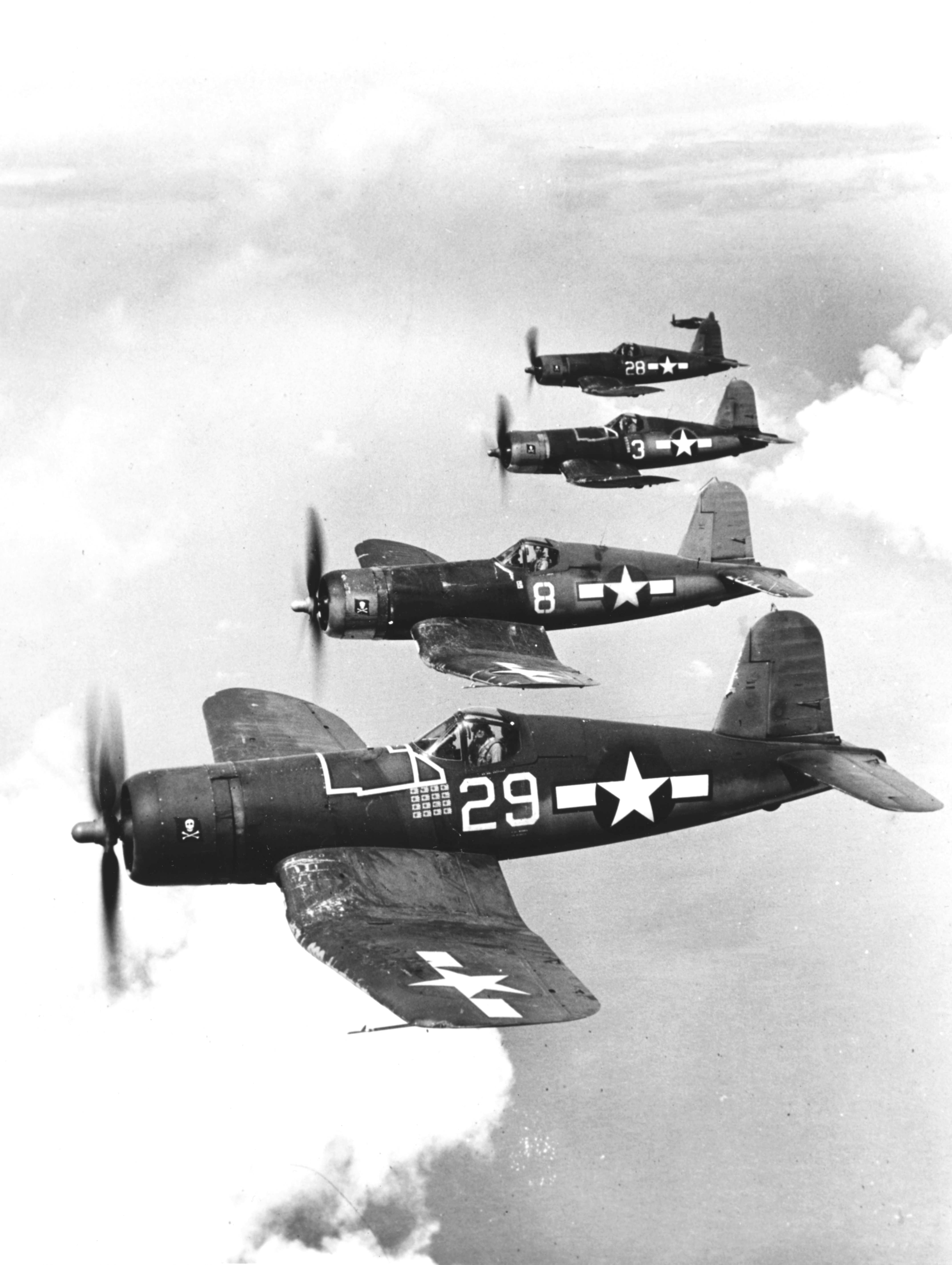 U.S. Navy Vought F4U-1A Corsairs of Fighter Squadron 17 (VF-17) "Jolly Rogers" in the Southwest Pacific, possibly over Bougainville in early March 1944. Plane no. 29 is BuNo 55995, flown by Lieutenant Junior Grade Ira C. Kepford, then the Navy's leading "Ace," with sixteen "kills." Pilot of plane no. 8 is thought to be Hal Jackson. Plane no. 3, flown by Jim Streig, has an odd "star and bar" insignia, perhaps with the red outline that was replaced with blue the previous summer. The photo is dated 15 April 1944, but was probably taken early in the previous month.